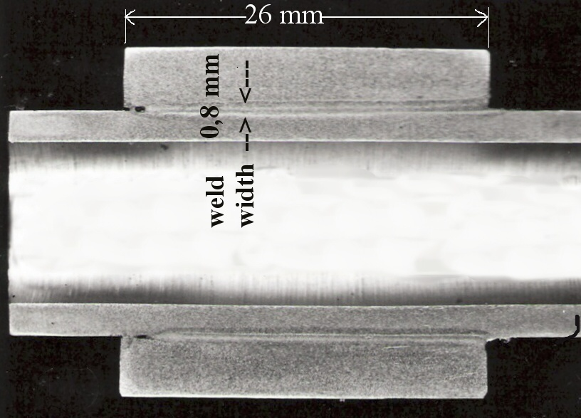 Deep narow weld